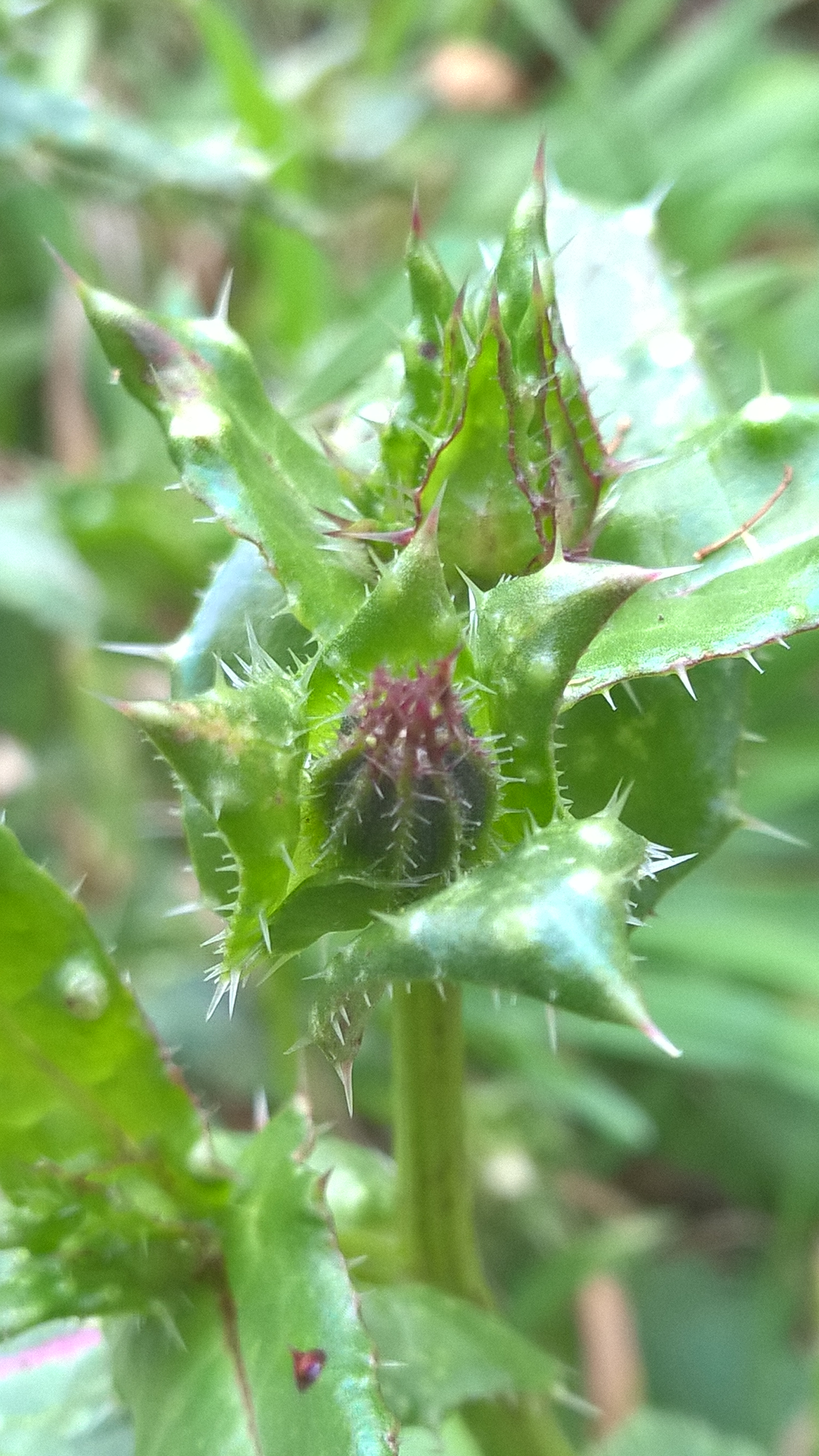 Bristly Oxtongue